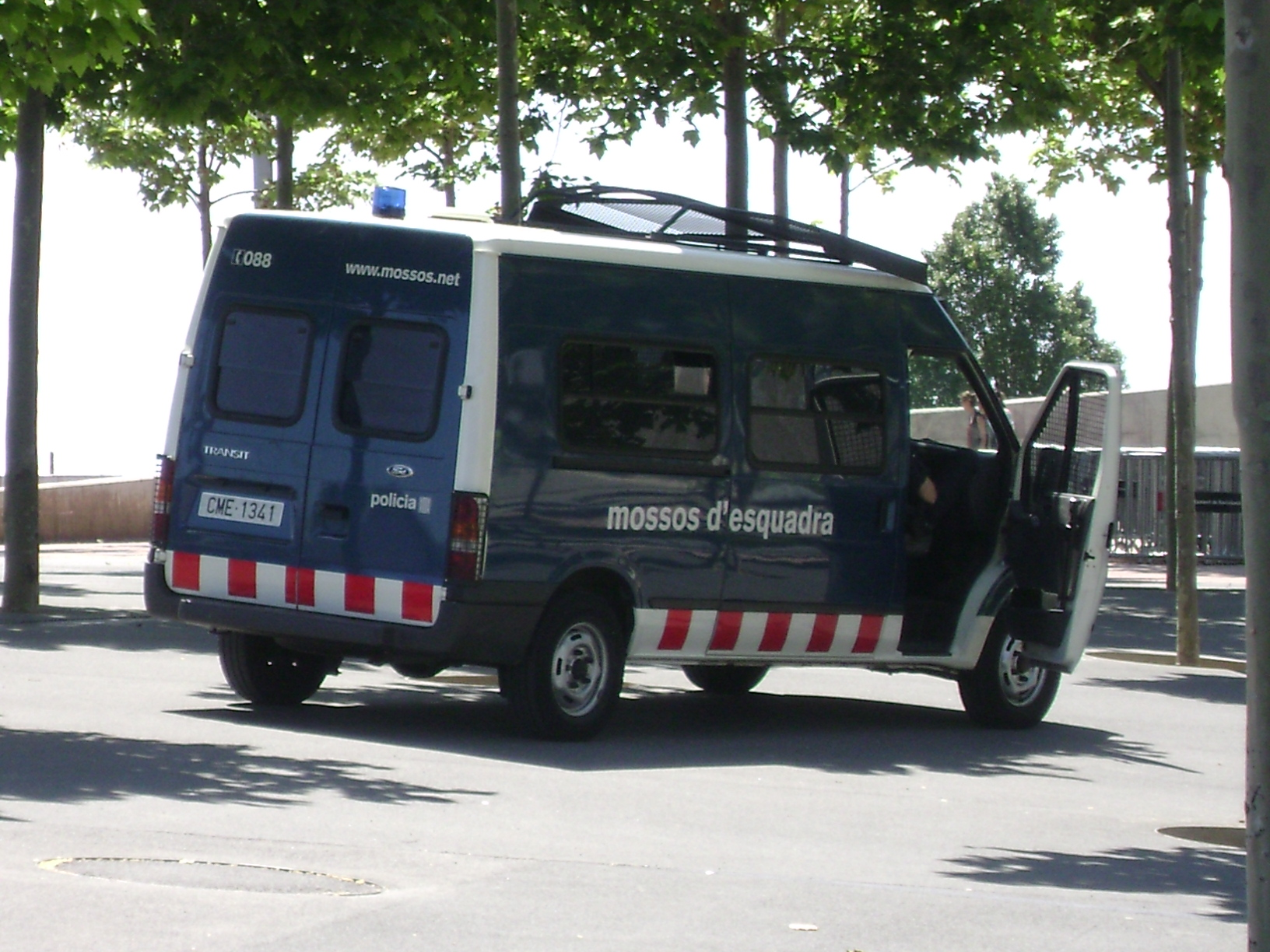 An ARRO van watching over the Forum. Una furgoneta ARRO vigilant el Forum de Barcelona.